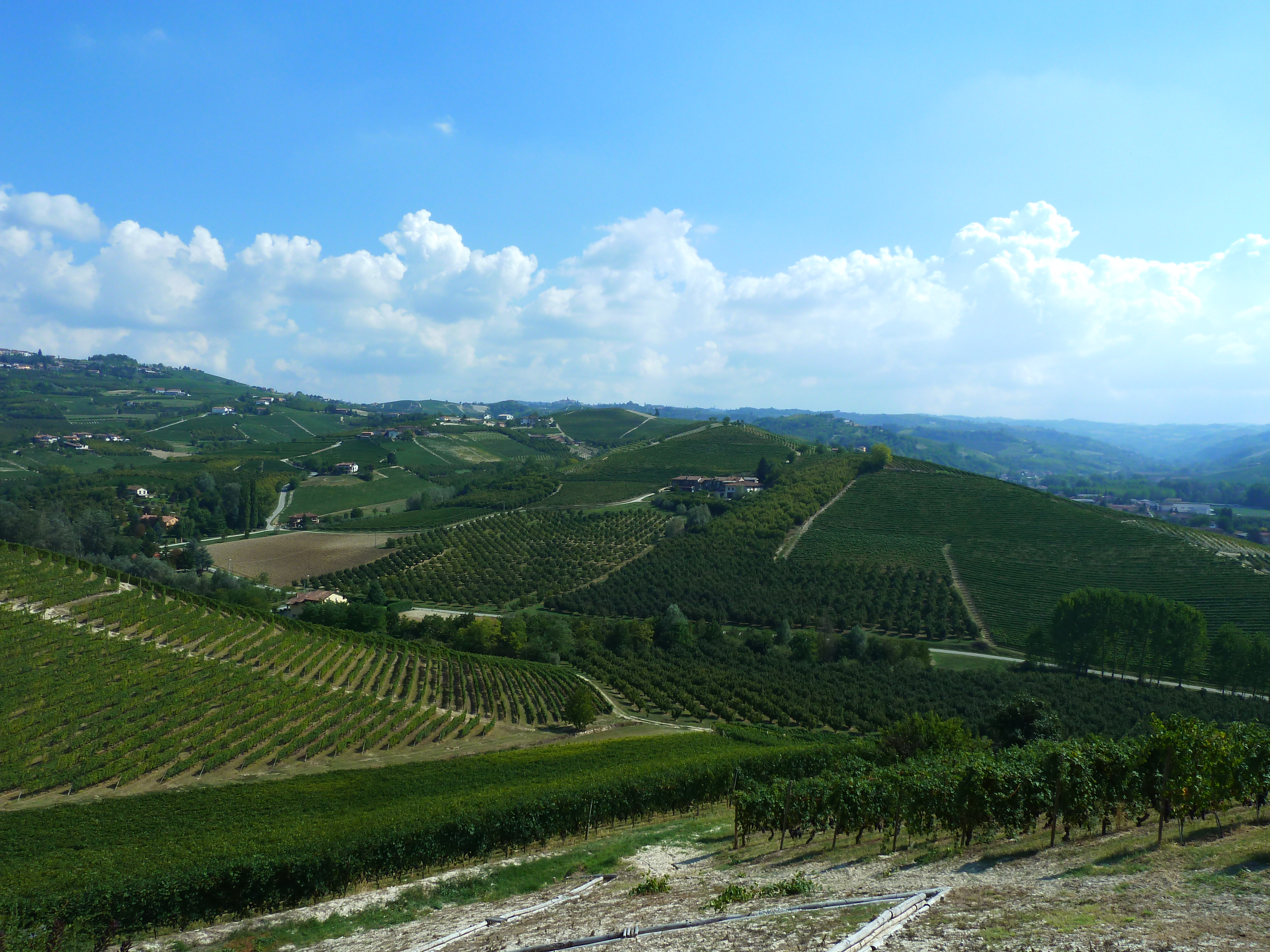 A view from the Castle of Grinzane Cavour